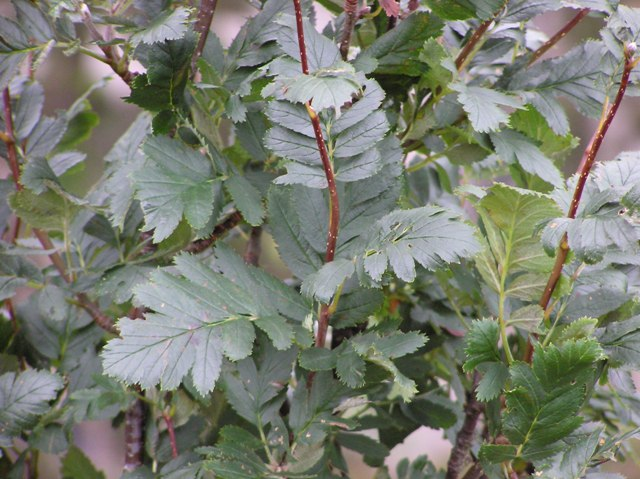 Arran Cut-Leaved Whitebeam (Sorbus pseudofennica) This rare endemic tree arose from a cross between the Rowan (S. aucuparia) and the Arran Whitebeam (S. arranensis). The Arran Whitebeam itself arose from a cross between the Rowan and the Rock Whitebeam (S. rupicola)